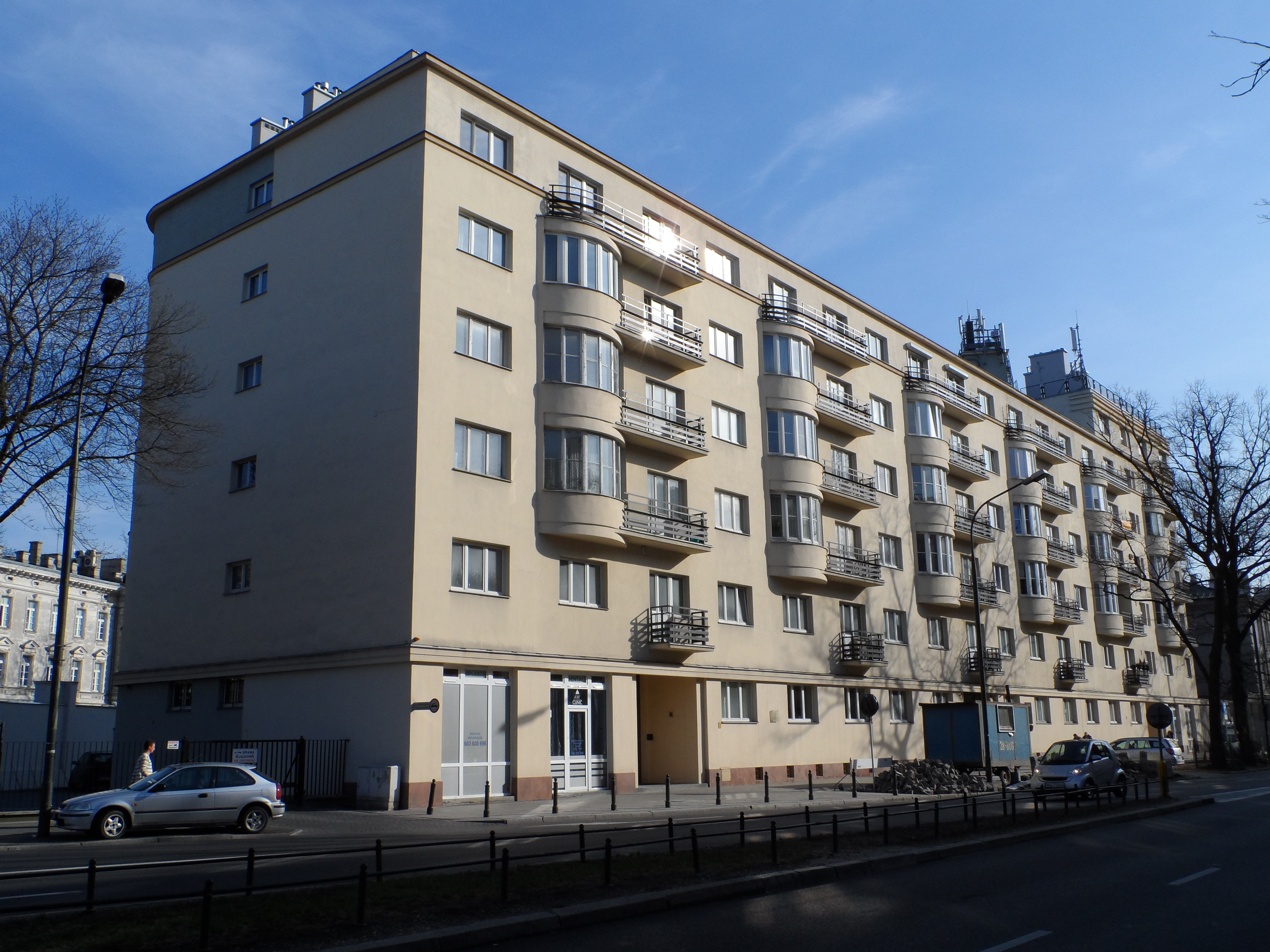 Tenement House at 16 Szucha Avenue in Warsaw.